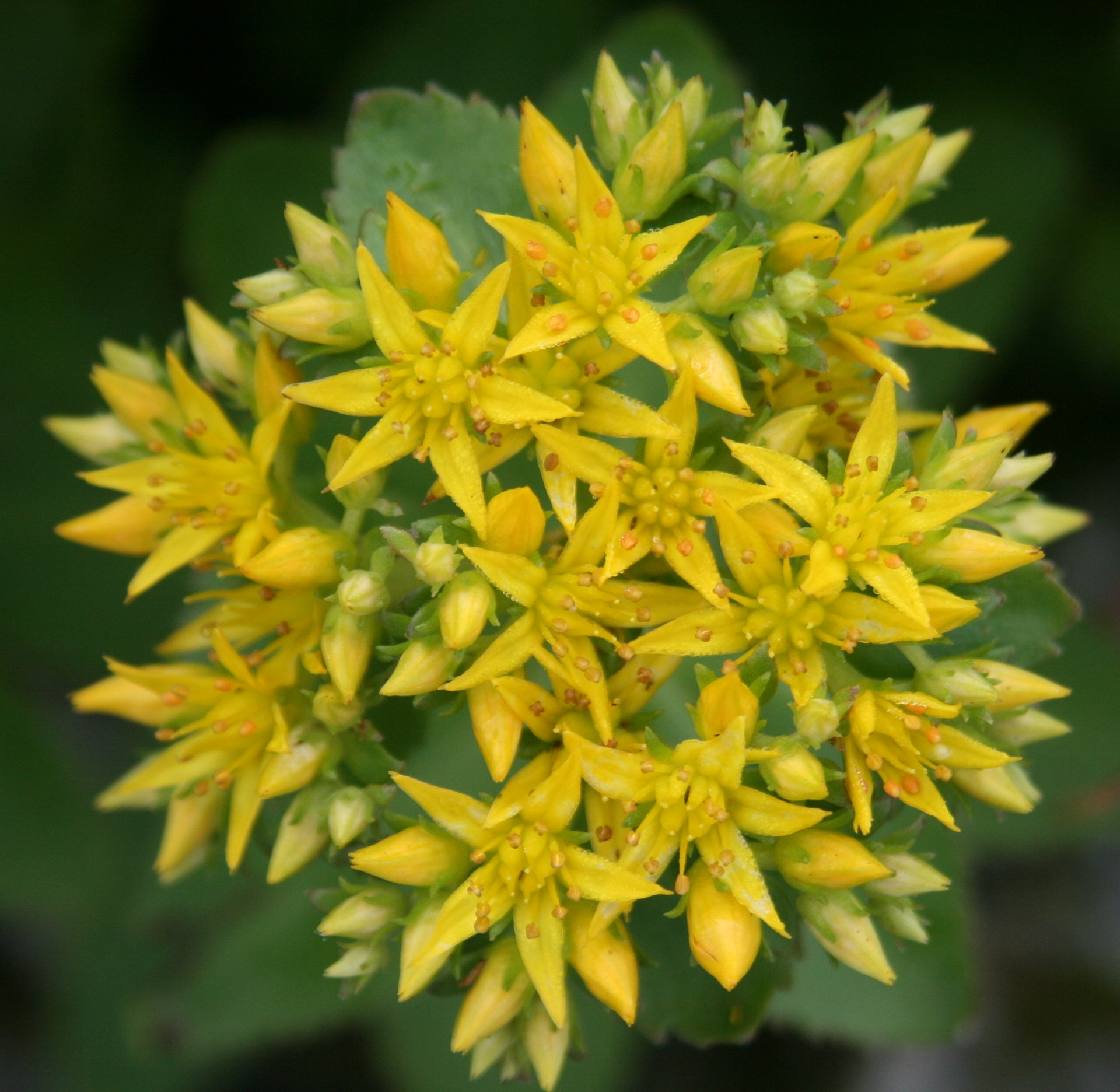 Sedum aizoon var. floribundum leaf in Mount Ibuki